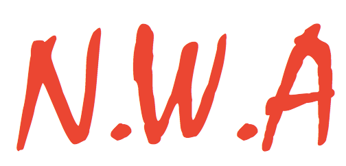 Logo of N.W.A, an American hip hop group active from 1986 until 1991.